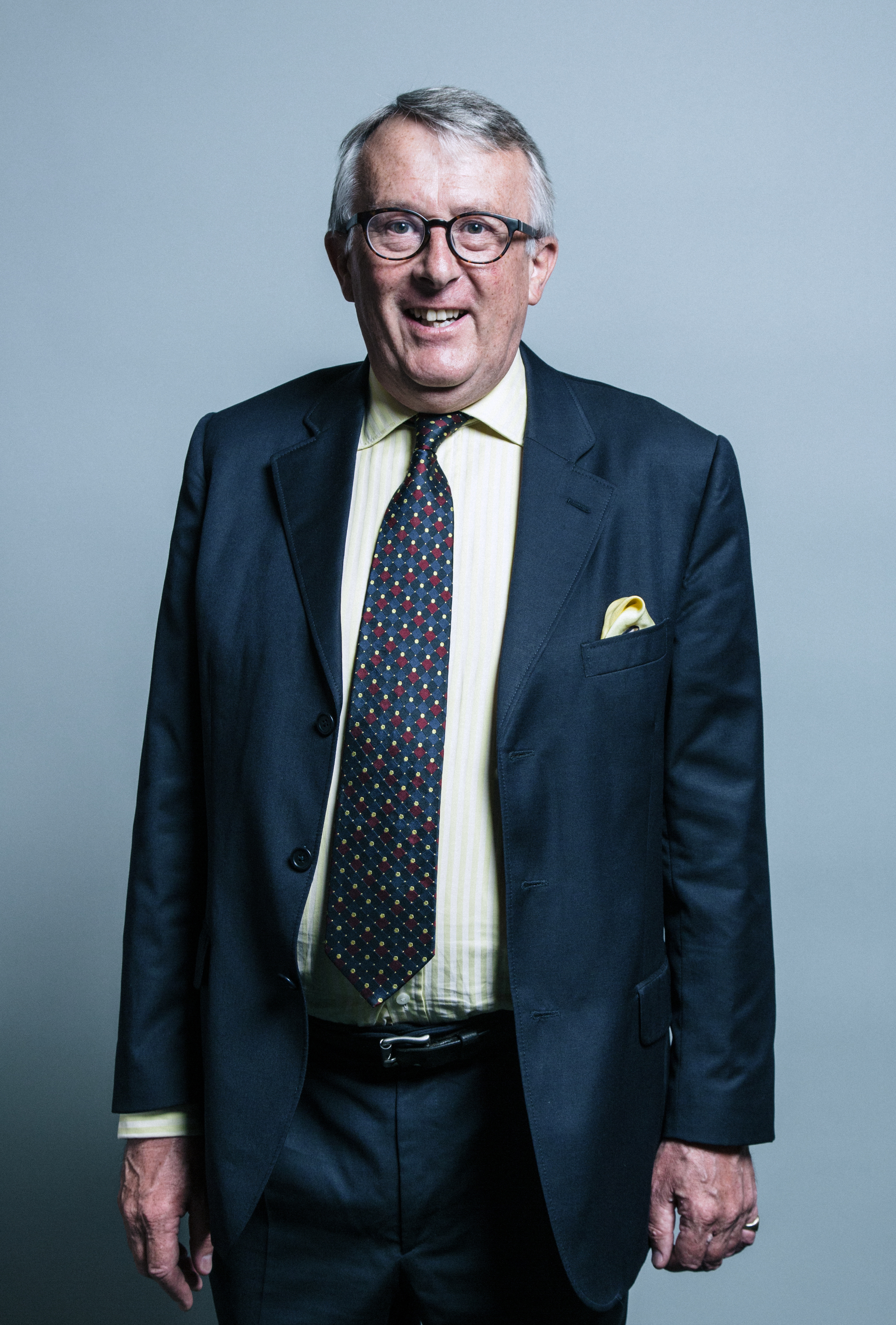 Official portrait of Jamie Stone